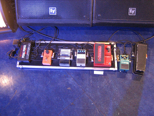 Tom Morello's guitar pedalboard